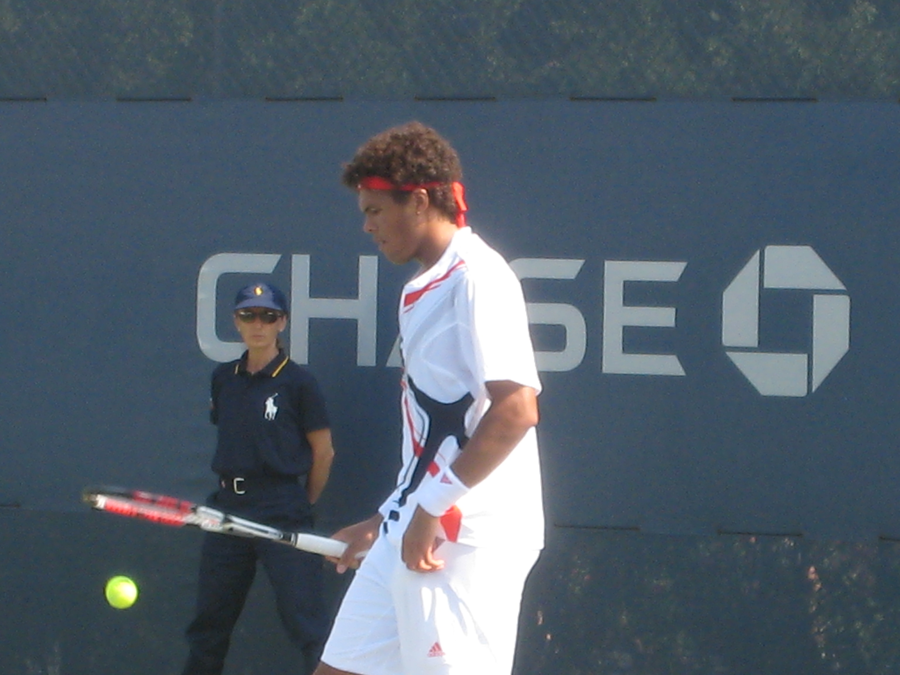 Jo-Wilfried Tsonga of France defeated Oscar Hernandez of Spain at the en:2007 U.S. Open[1].